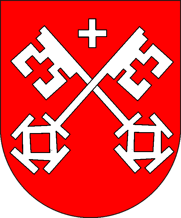 coat of arms archbishop of Bremen